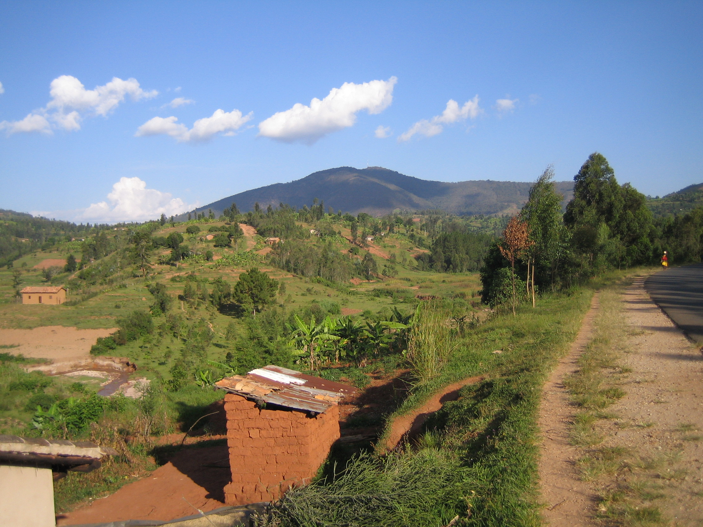 Mount Huye in southern Rwanda Taken by SteveRwanda